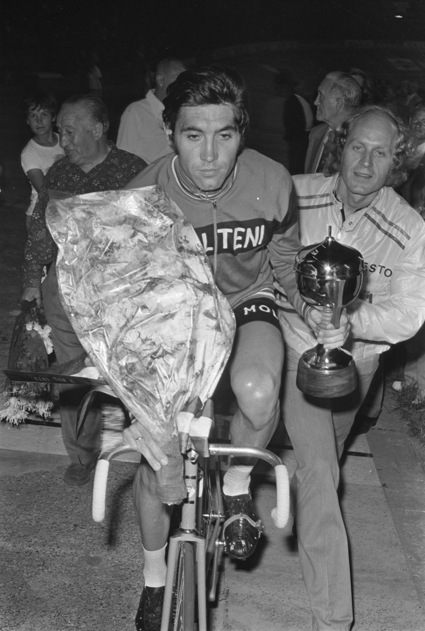 Eddy Merckx after winning the Olympic Stadium